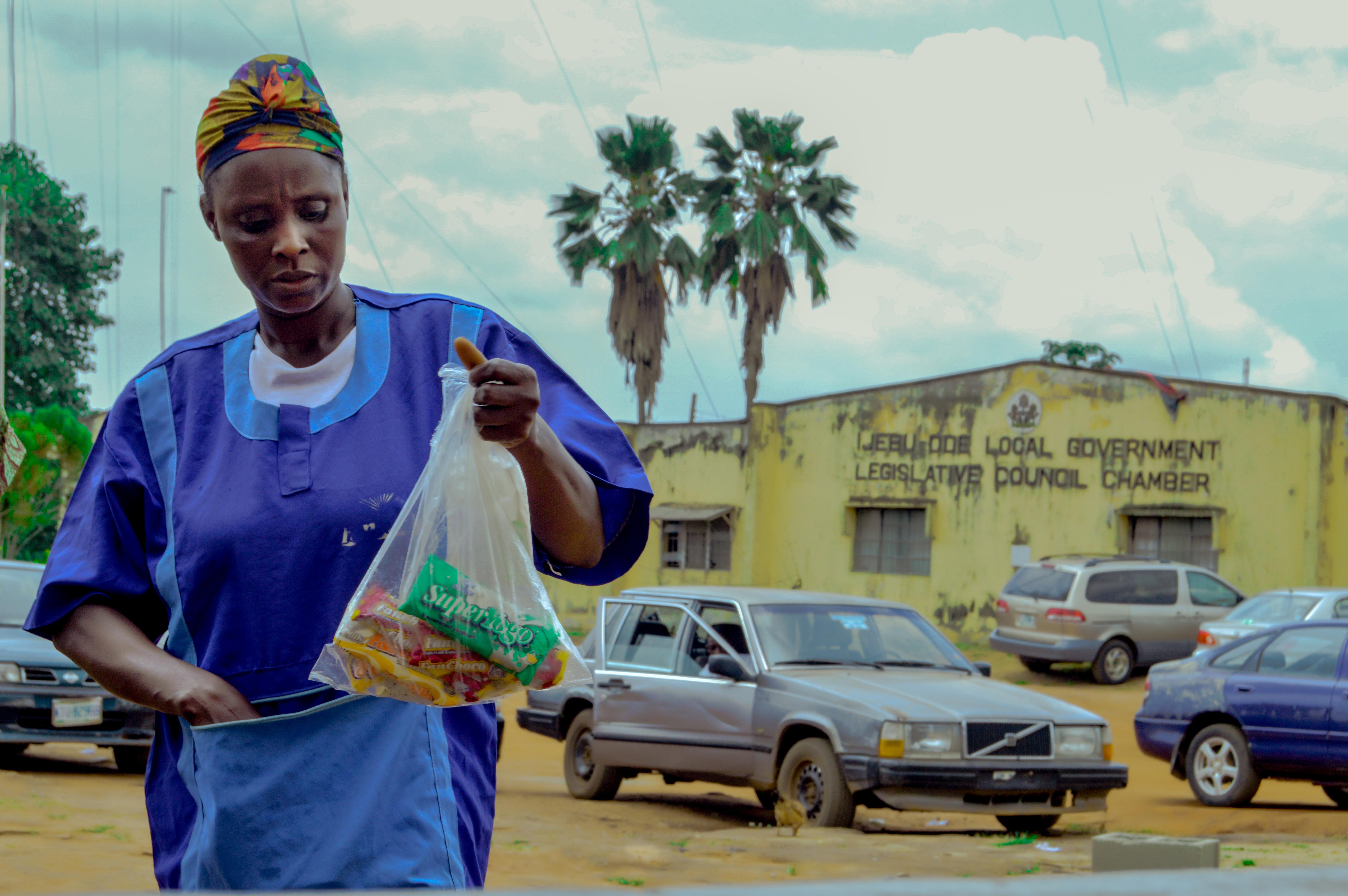 Quite unusual, A woman is seen selling Fan-milk as a day-to-day activity This is an image of "African people at work" from Nigeria